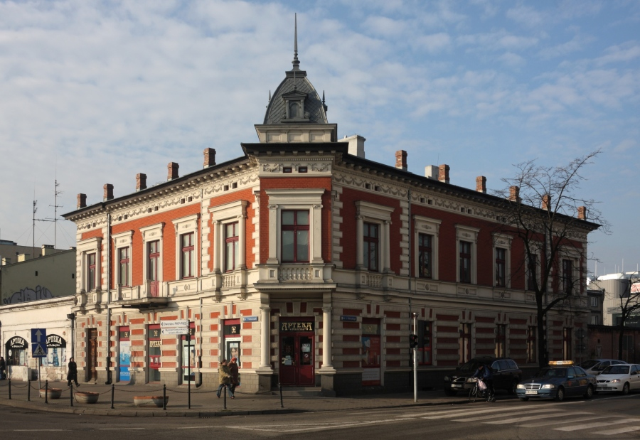 Włocławek, so-called Mühsam Palace.